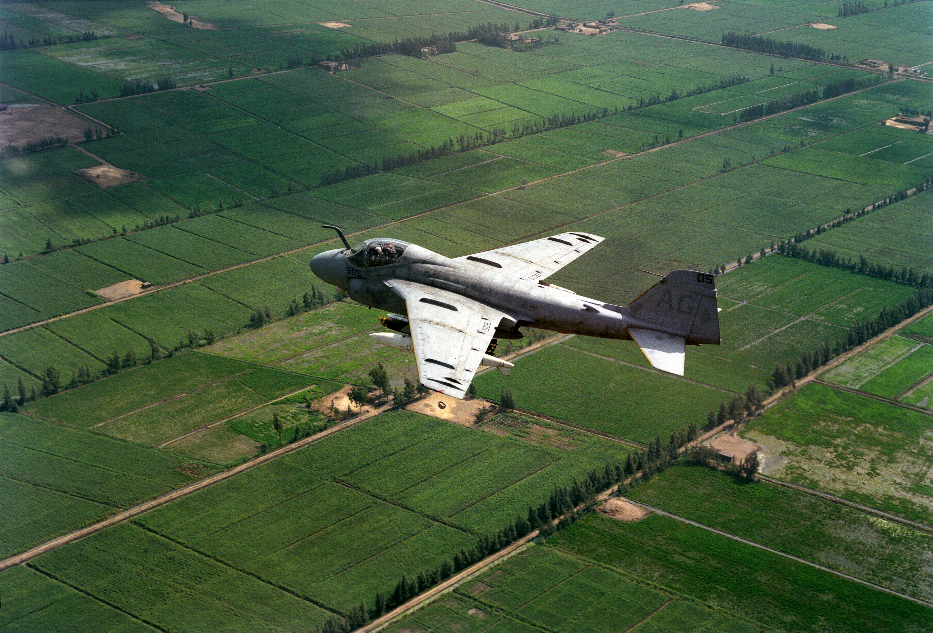 A U.S. Navy Grumman A-6E Intruder aircraft (BuNo 155703) from Attack Squadron 65 (VA-65) "Tigers" on 1 August 1983. VA-65 was assigned to Carrier Air Wing 7 (CVW-7) aboard the aircraft carrier USS Dwight D. Eisenhower (CVN-69) for a deployment to the Mediterranean Sea from 27 April to 2 December 1983.